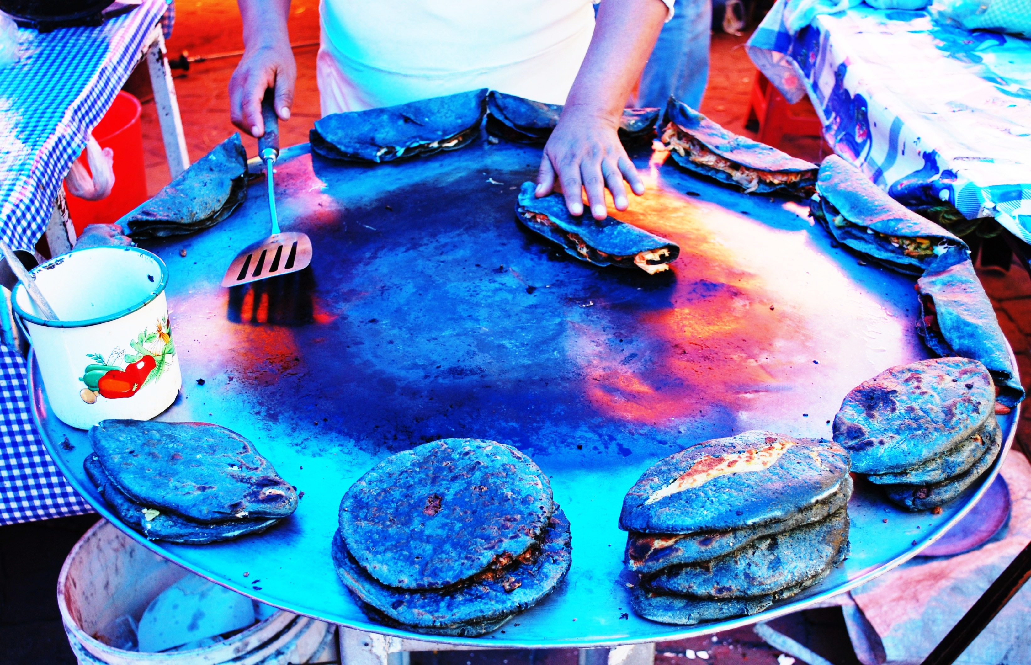 Blue corn and squash gorditas frying at a tianguis market in Metepec, Mexico State- Blue corn tortilla quesadillas in the back. NOTE: the presumed blue color of the masa is not apparent in this color altered image.